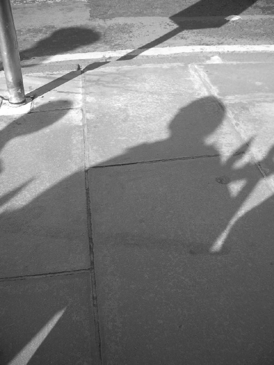 Shadow of the human